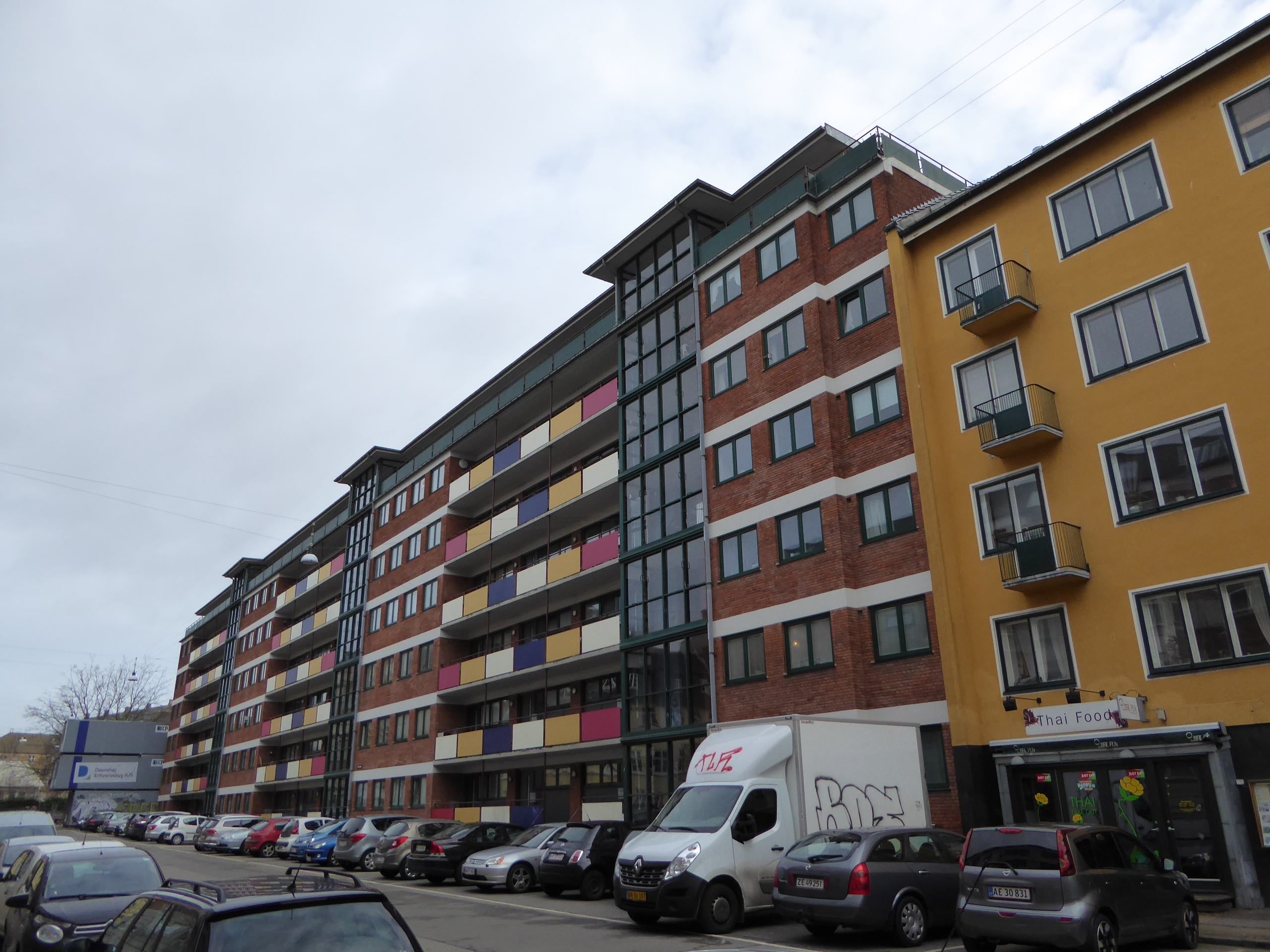 Apartment building at Gormsgade in Nørrebro in Copenhagen.